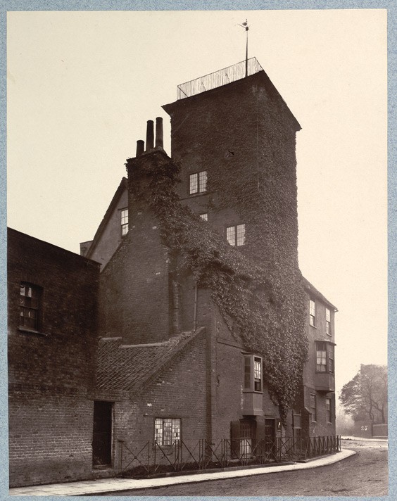 "Canonbury Tower 25," black and white photographic print, by the British photographer Henry Dixon (1820-1892). ""The Manor of Canonbury was an appendage of the Priory of St. Bartholomew and appears to have been given to the Priory by Ralph de Berners, in the time of Edward I." Image courtesy of the British Library, London.